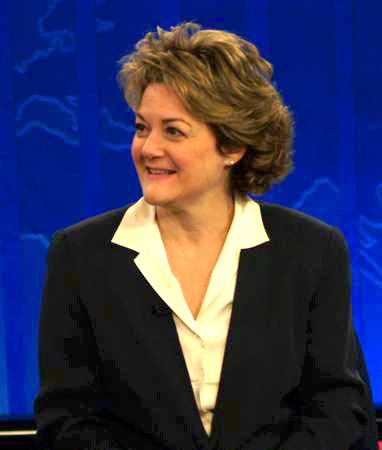 A photo of Bonnie Arnold when she was promoting the animated movie Over The Hedge, which she produced. Attribution to: Phil Konstantin